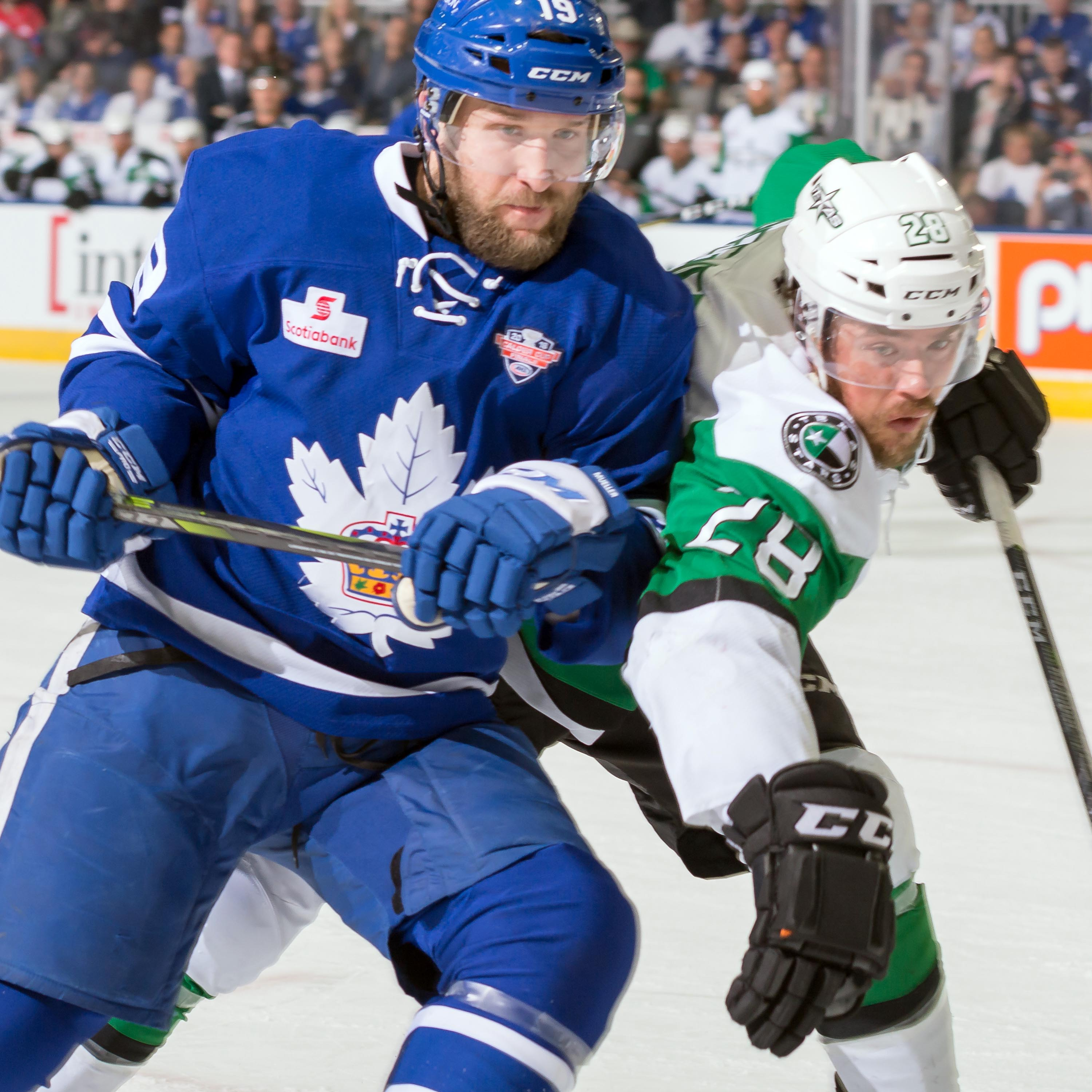 Photo: Christian Bonin